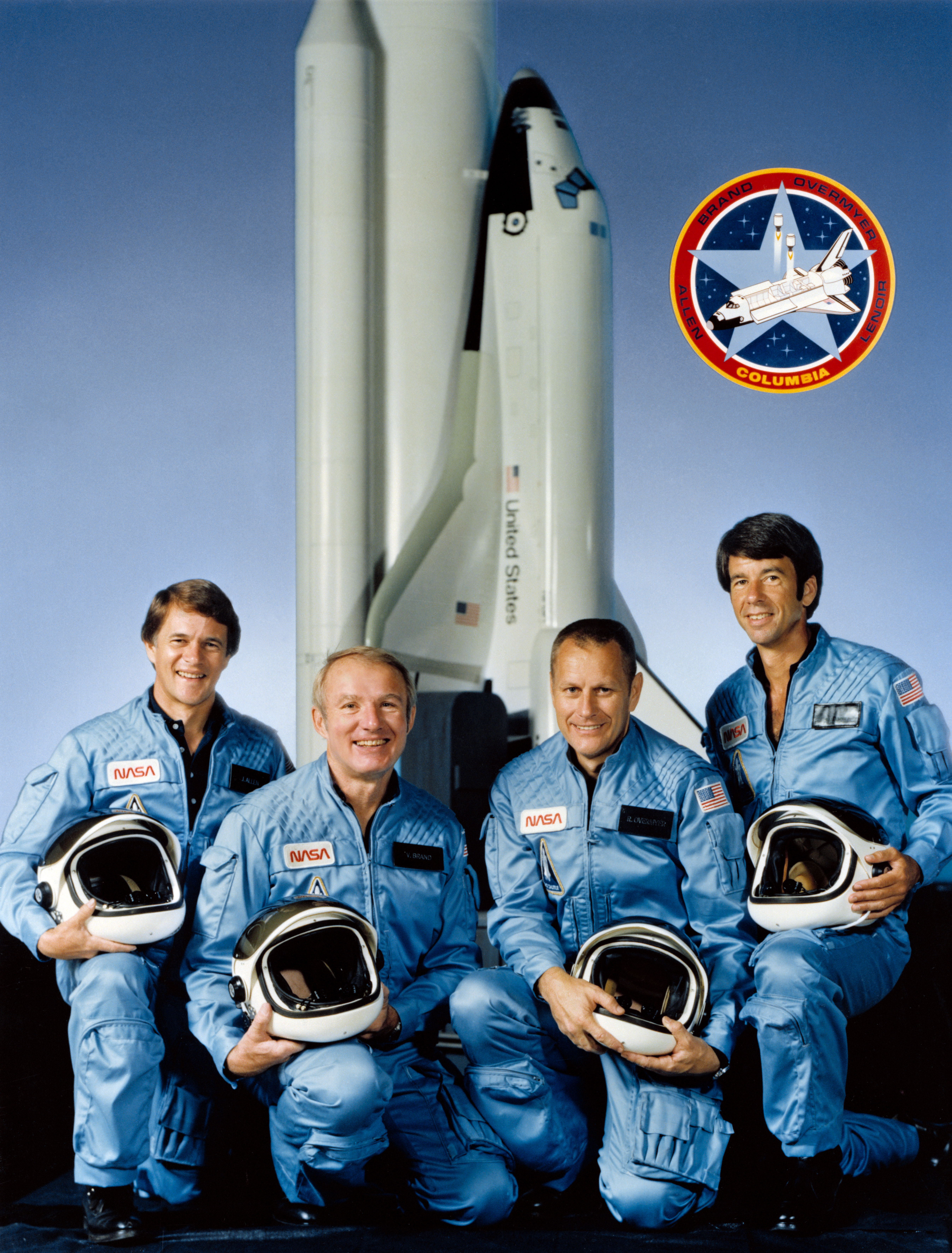 The official portrait of STS-5 mission crewmembers includes astronauts Vance D. Brand (second left), commander; Robert F. Overmyer (second right), pilot; and Joseph P. Allen (left) and William S. Lenoir, both mission specialists. They pose in blue flight suits holding their helmets, with a space shuttle model and the official insignia for STS-5 in the background.